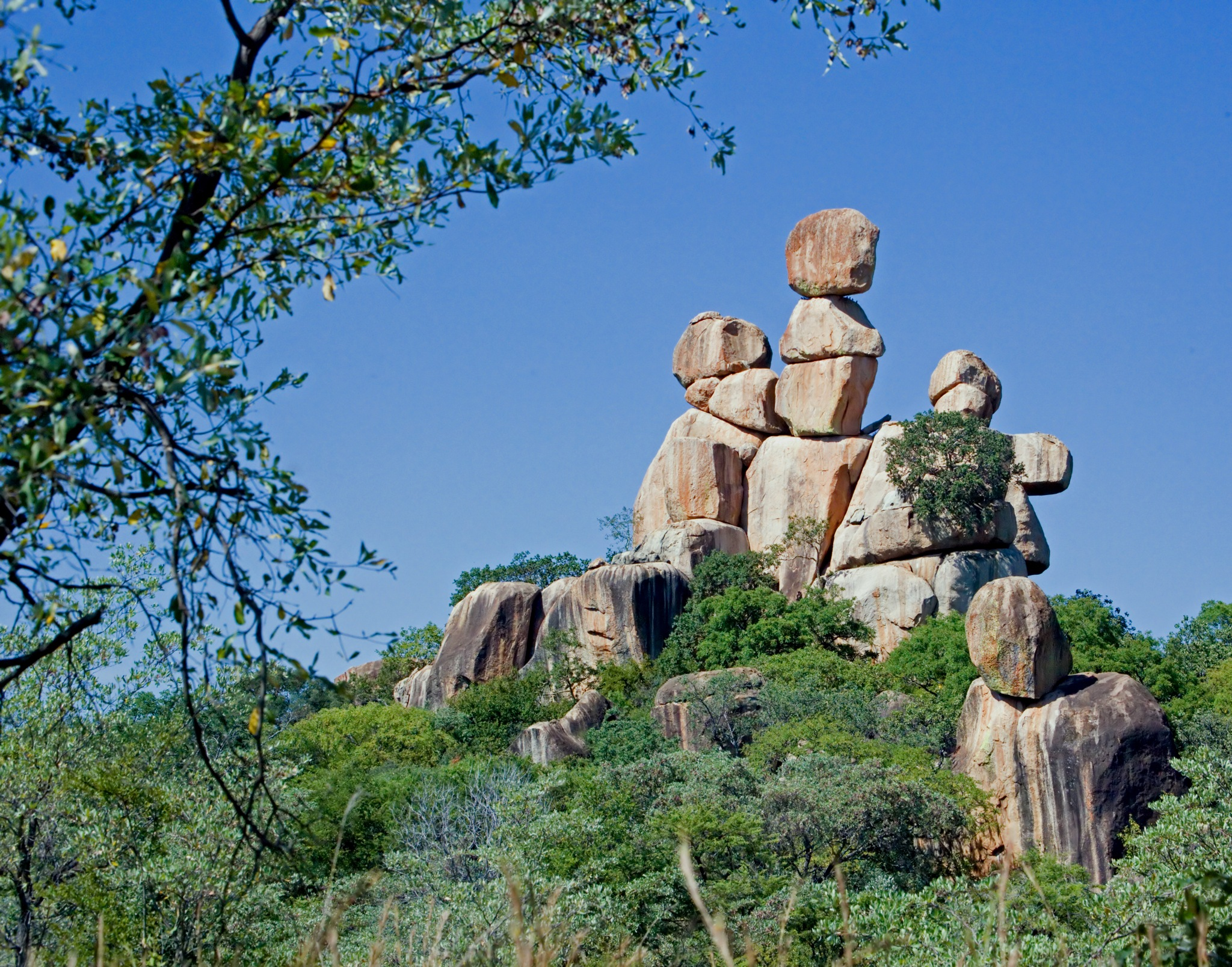 Mother and Child Rock Balancing Rocks in Matopos National Park, Zimbabwe